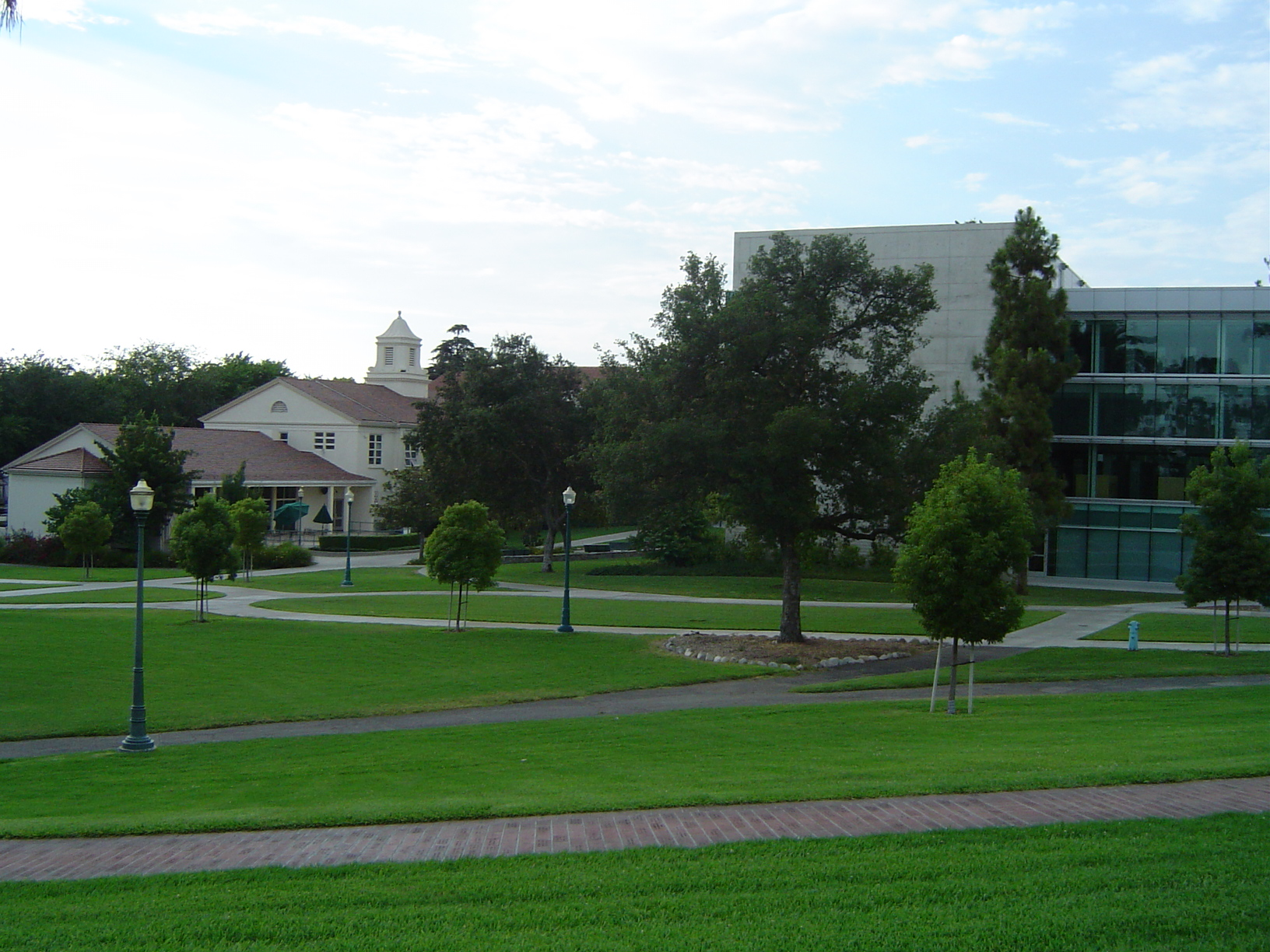 Photographed and uploaded by User:Geographer Looking from Northwest Quadrant to Hoover Hall (L) and The Rose Hills Foundation Center for Library & Information Resources (R), Whittier College, July 23, 2005.